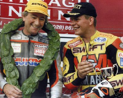 Joey Dunlop and David Jeffries